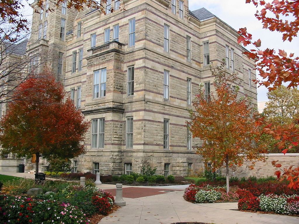 Adelbert Hall, Case Western Reserve University, Cleveland, Ohio, USA